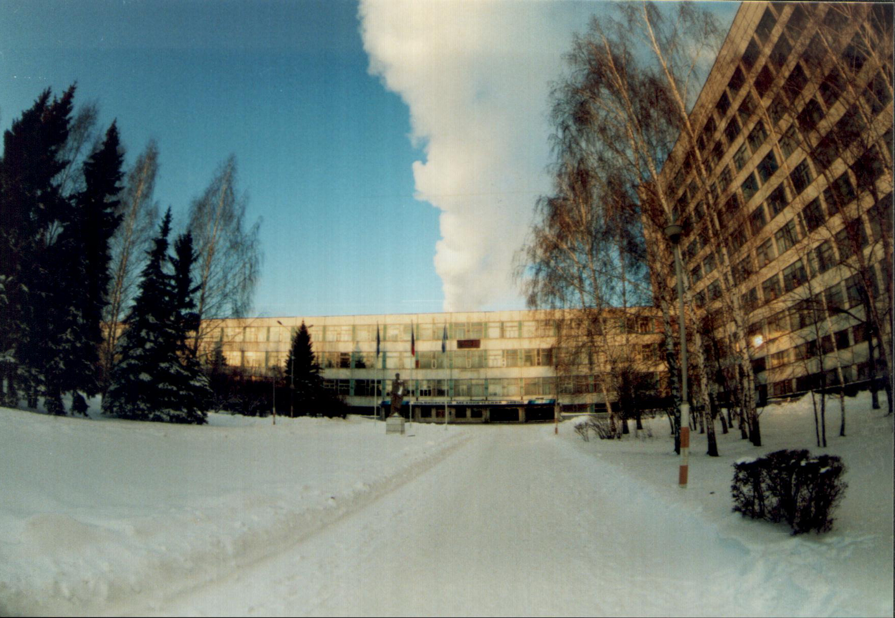 Ulyanovsk Mechanical Plant (UMZ) main entrance